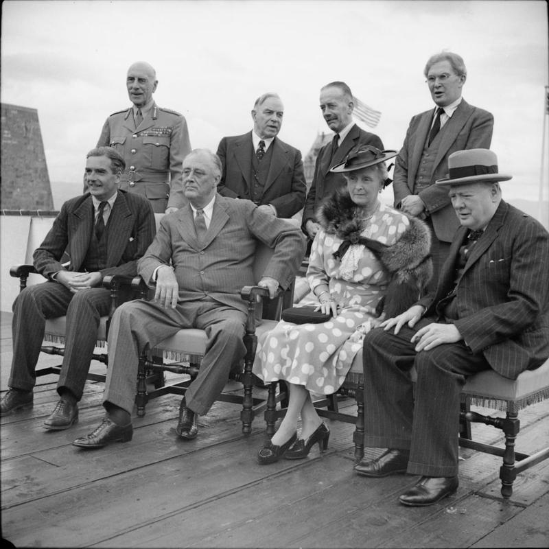 Winston Churchill at the Quebec Conference, August 1943 Dignitaries on the terrace at the Citadel overlooking Quebec harbour, 18 August 1943. Seated are Anthony Eden (Foreign Secretary); President Roosevelt; the Countess of Athlone; Winston Churchill. Standing are the Earl of Athlone (Governor General of Canada); Mackenzie King (Prime Minister of Canada); Sir Alexander Cadogan (Permanent Under Secretary for Foreign Affairs); Brendan Bracken (Minister of Information).